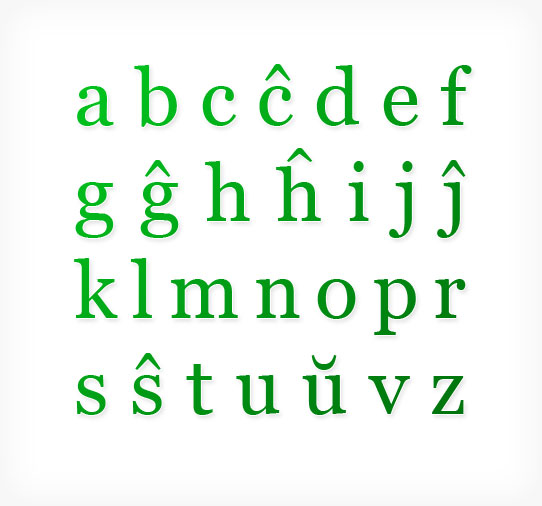 Alphabet of Esperanto - green minuscule block letters.